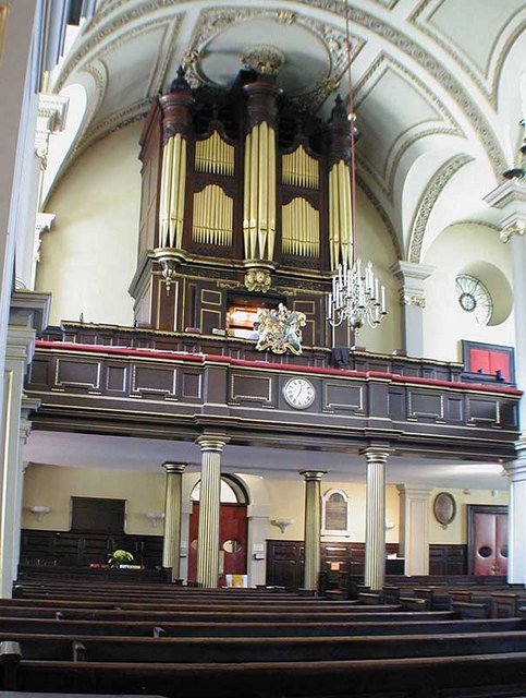 St Giles in the Field, London WC2 - West end & organ